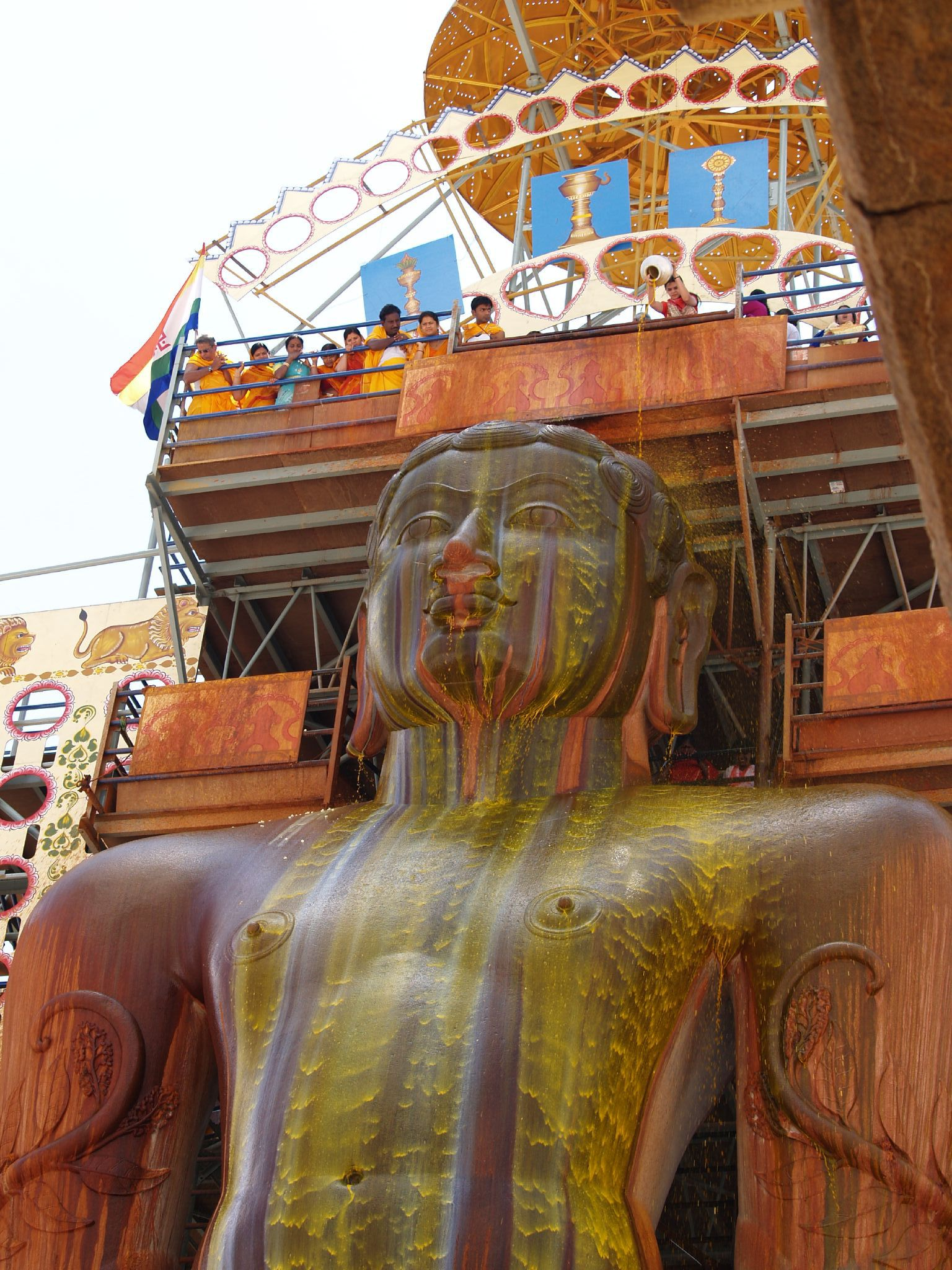 Lord Bahubali, the world's largest monolithic statue, at the Jain temple of Shravanabelagola, Karnataka.